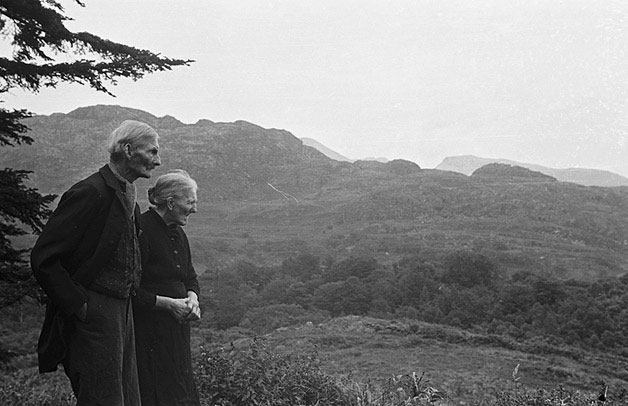 Teitl Cymraeg/Welsh title: Carneddog a'i wraig, Catrin, cyn gadael eu fferm fynyddig yn Eryri Ffotograffydd/Photographer: Geoff Charles (1909-2002) Nodyn/Note: Carneddog (Richard Griffith) and his wife, Catrin, take one last look at the mountains from which, for eighty years, came the inspiration that made him famous in north Wales for his poetry. Sadly, they have to leave their mountain farm on the slopes of Snowdonia, moving to Hinckley, Leicestershire, to be with their son. The image was published in 'Y Cymro'. Dyddiad/Date: September 14, 1945 Cyfrwng/Medium: Negydd ffilm / Film negative Cyfeiriad/Reference: (gcc03709) Rhif cofnod / Record no.: 3472705 Rhagor o wybodaeth am gasgliad Geoff Charles yn Llyfrgell Genedlaethol Cymru Ceir mwy o ffotograffau o Gymru a'r Gororau adeg yr Ail Ryfel Byd ar wefan .uk More information about the Geoff Charles Collection at the National Library of Wales More photographs of Wales and the English border during the Second World War can be found at .uk